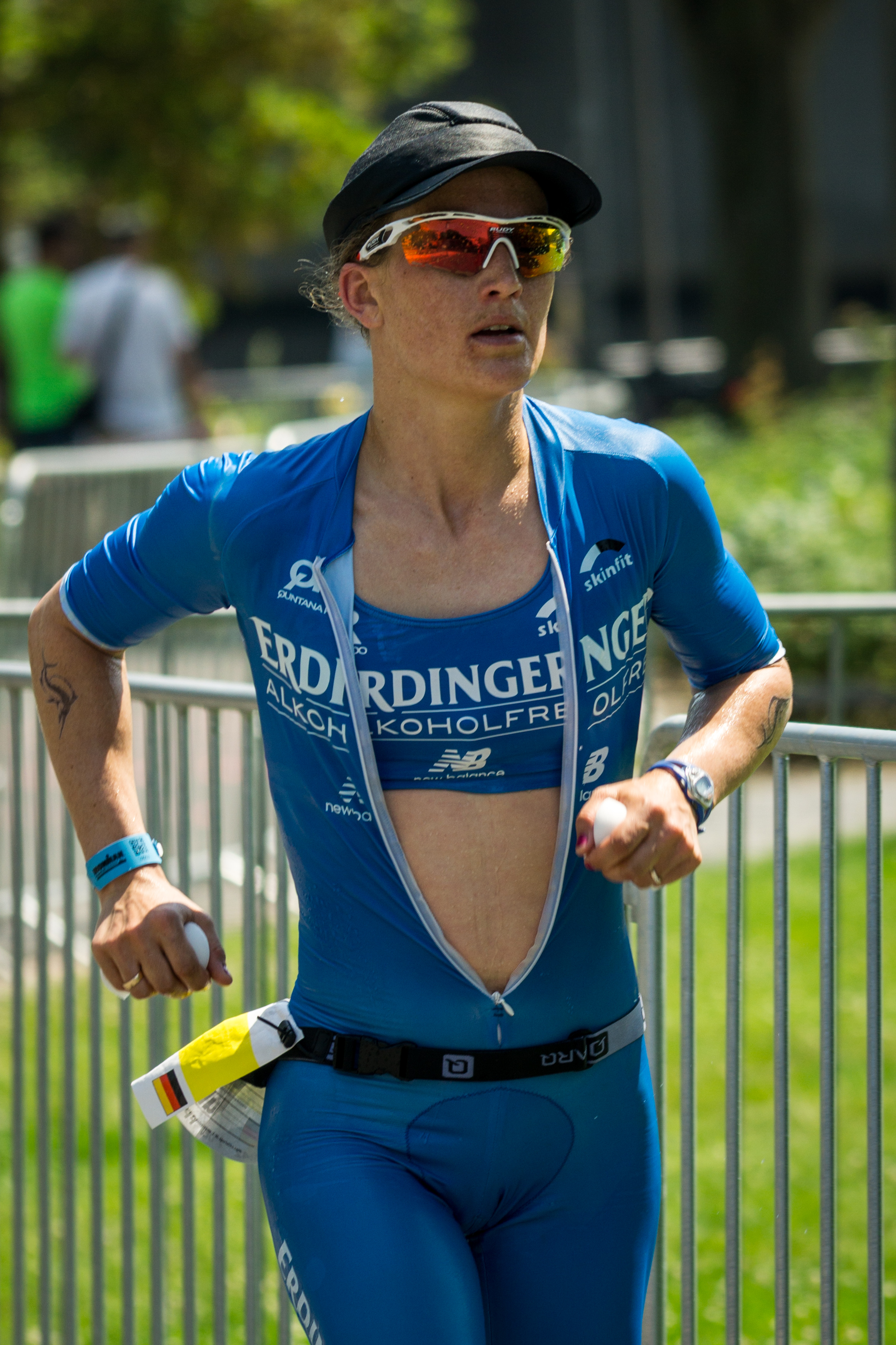 Julia Gajer at the 2015 Ironman European Championship in Frankfurt am Main.